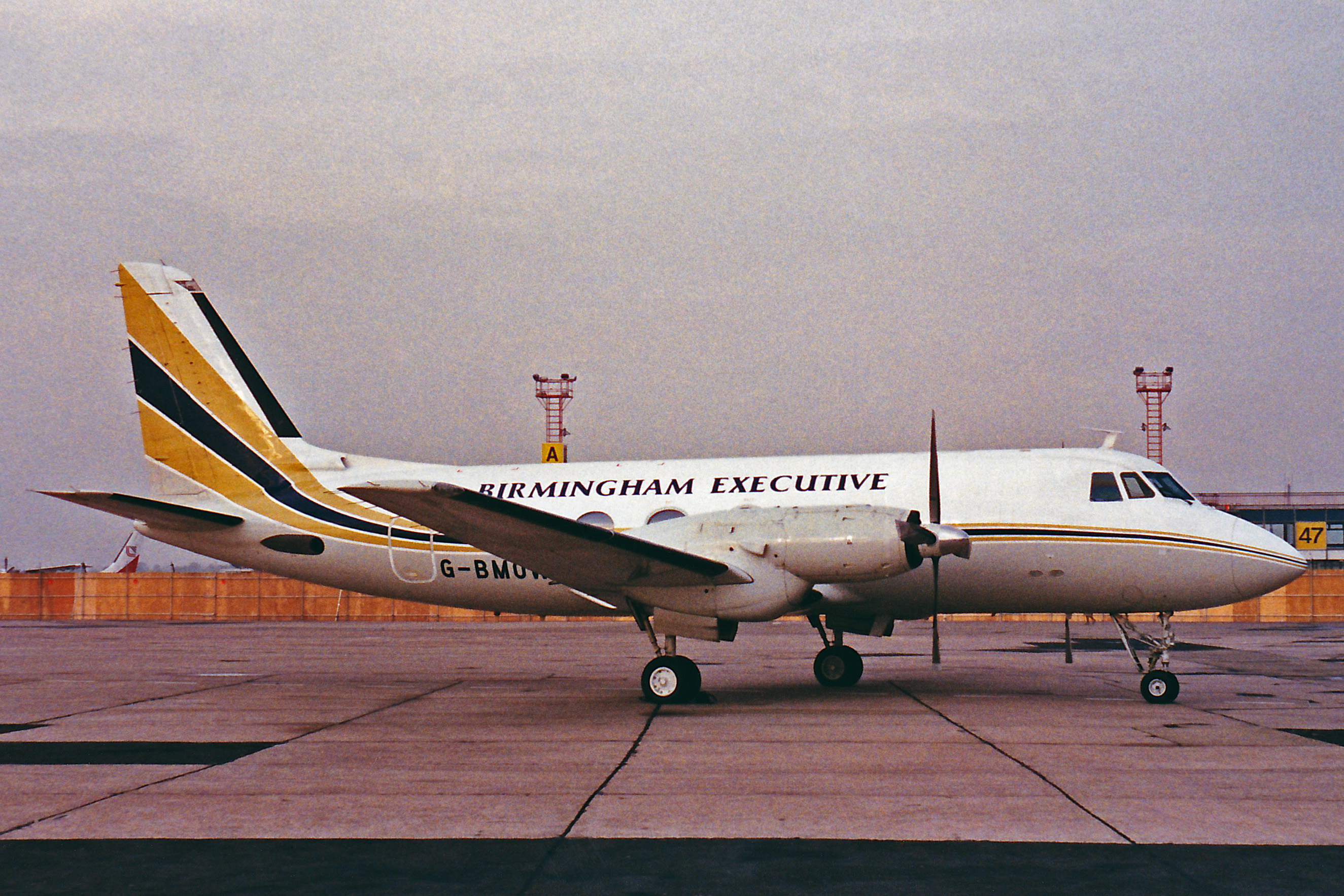 Replacing an earlier scanned photo with a better version.